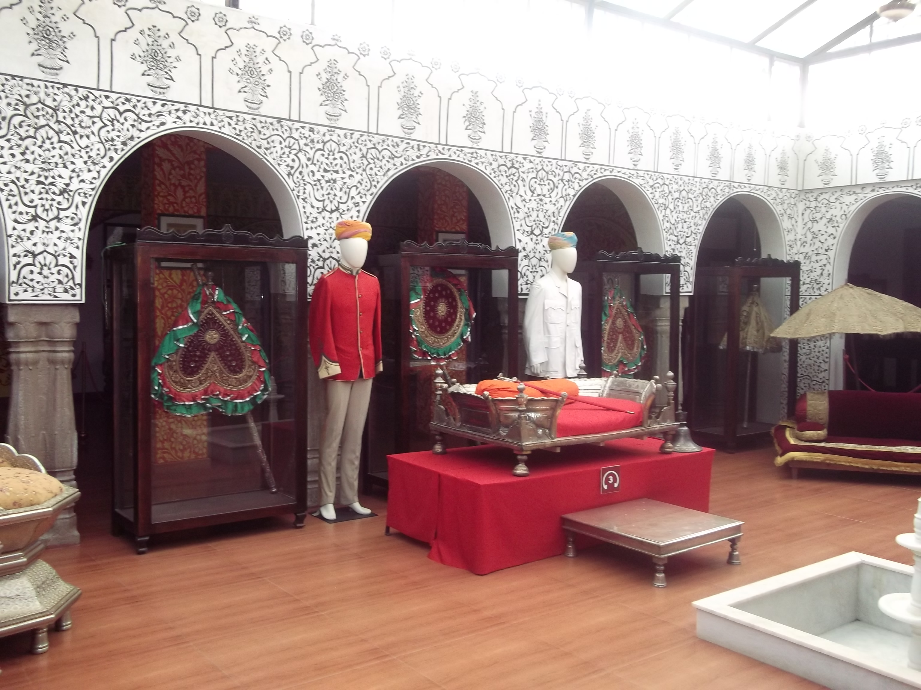 Sansarchand Museum, Himachal Pradesh